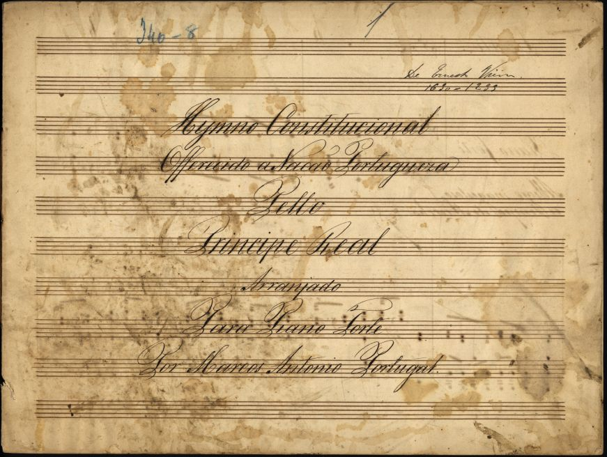 Copy of the original sheet music of the old national anthem of Portugal, "Hymno da Carta".